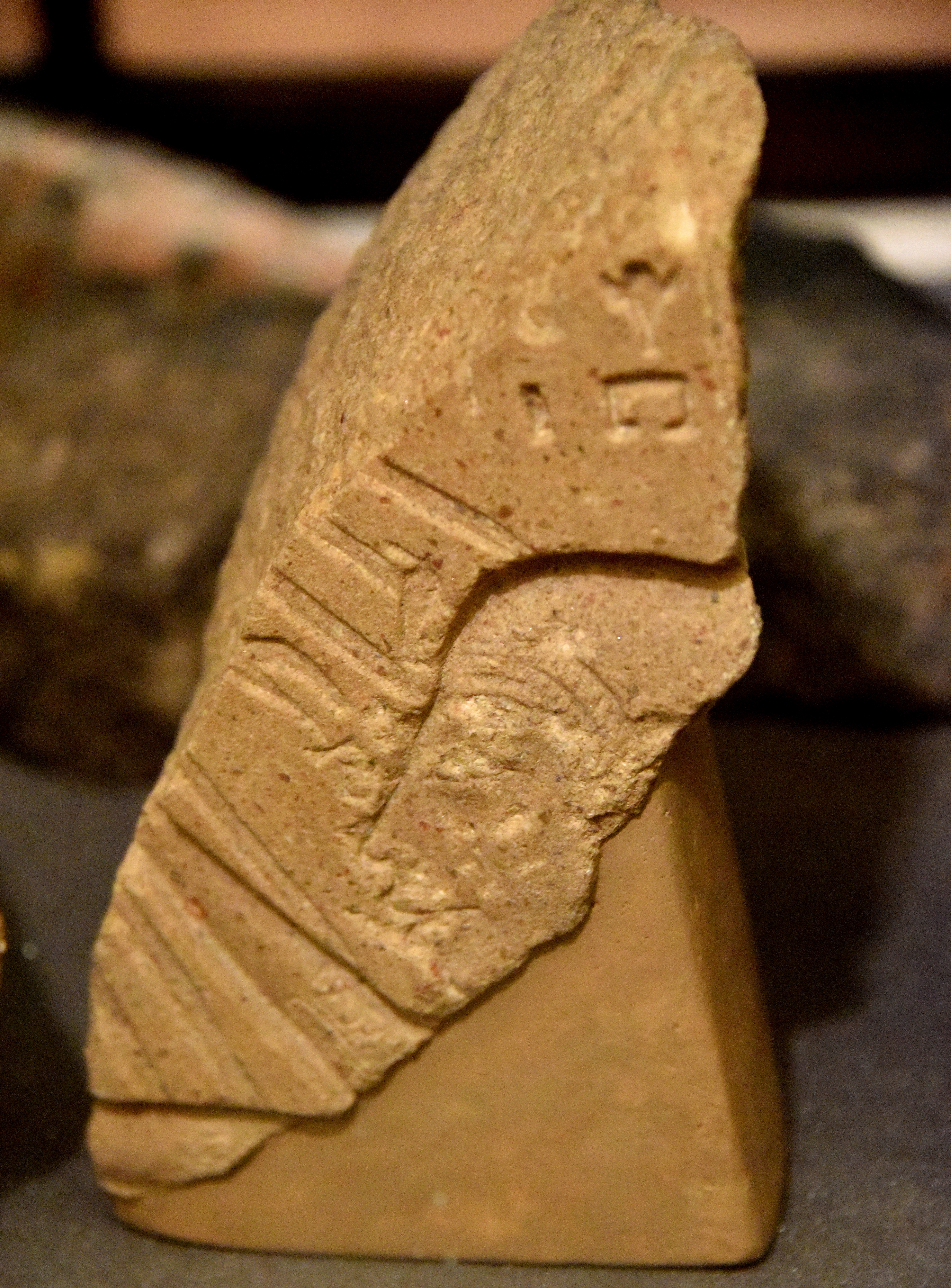 Relief fragment showing a royal head, probably Akhenaten, and early Aten cartouches. Aten's hand extends Ankh (sign of life) to the figure. Reign of Akhenaten. From Amarna, Egypt. The Petrie Museum of Egyptian Archaeology, London. With thanks to the Petrie Museum of Egyptian Archaeology, UCL. Formerly housed in the Wellcome Collection, London.